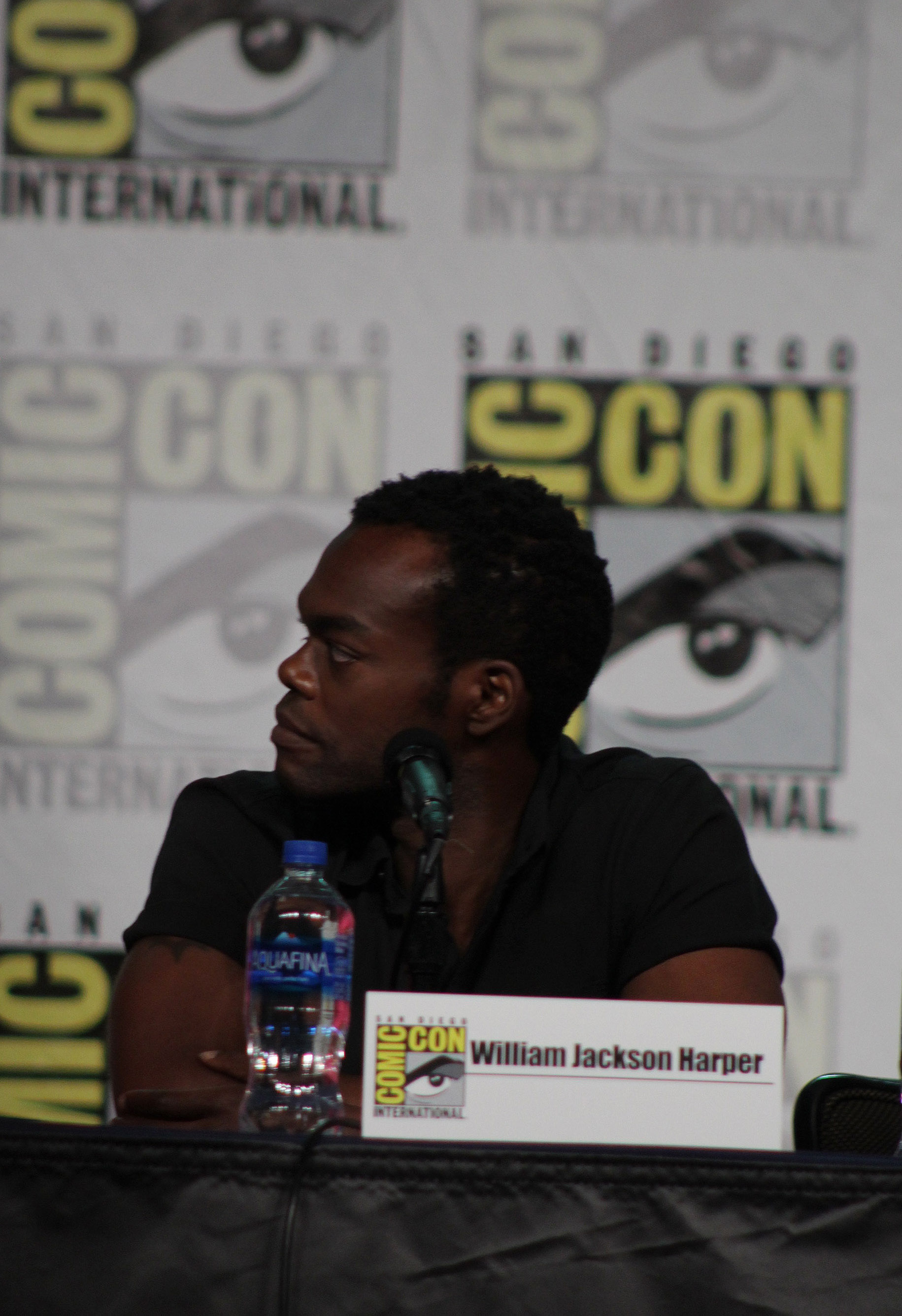 Cast and crew of NBC's 'The Good Place' discuss the show in the Indigo Ballroom at the San Diego Hilton Bayfront Hotel during San Diego Comic Con on July 20, 2019. Taken by Dominique Redfearn.